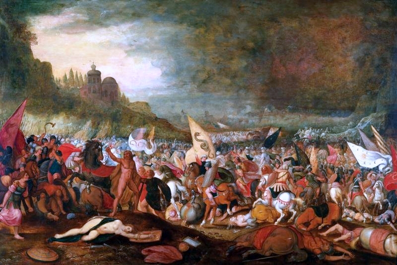 Circle Antoon Claessens The magic girdle of Hippolyta, Queen of the Amazons oil on panel Painting 98.5 x 146 cm Estimate Realized Price +7% above mid-estimate Auction Venue/Sale Sale Date Oct. 21, 2014